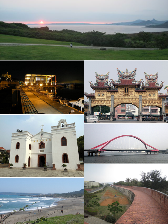 Montage of various Pingtung County images. 中文（台灣）: 屏東縣的蒙太奇。